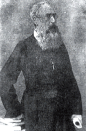 A photograph of Father Lafont, date unknown